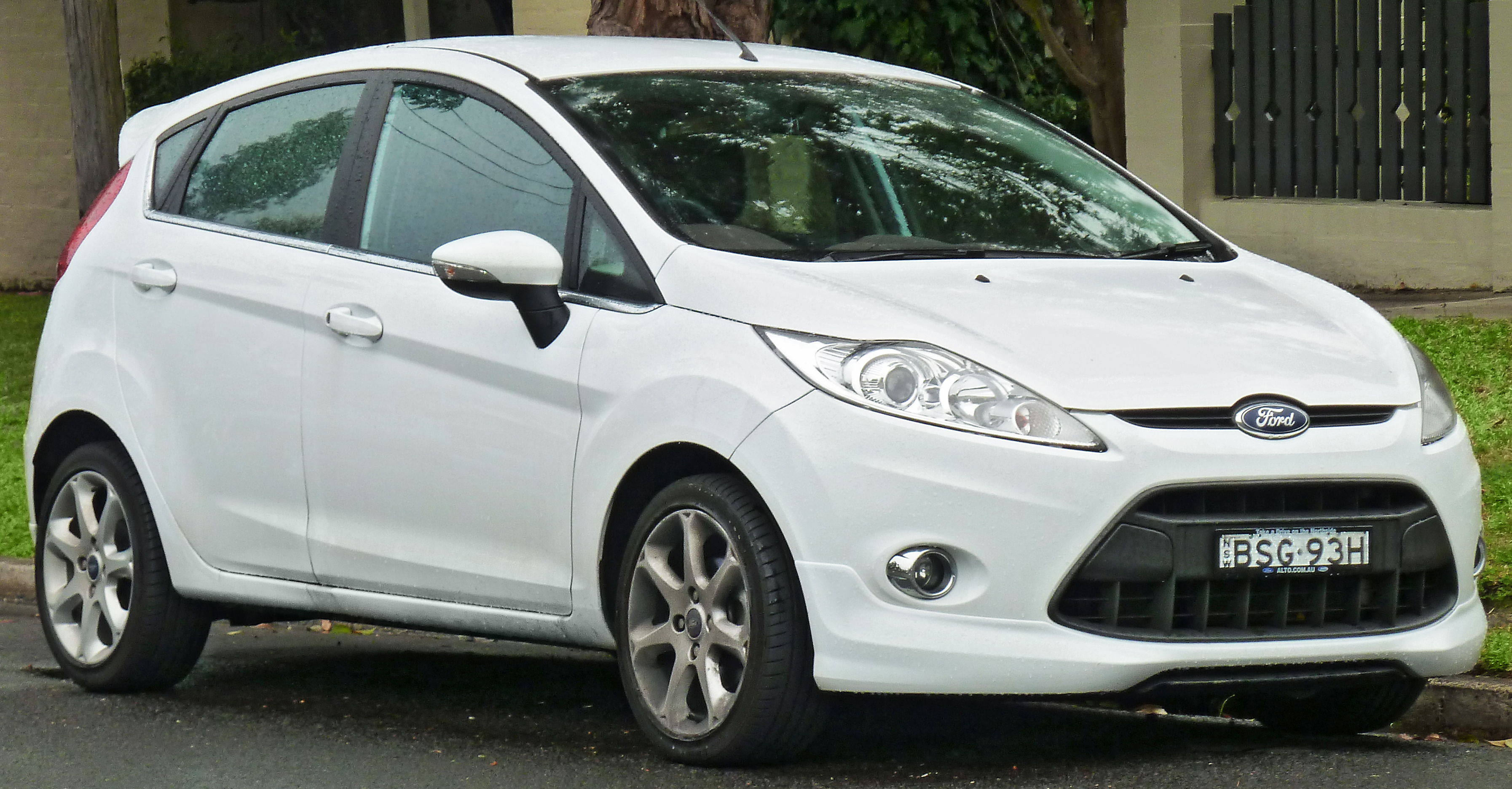 2009–2011 Ford Fiesta (WS) Zetec 5-door hatchback. Photographed in Chatswood, New South Wales, Australia.